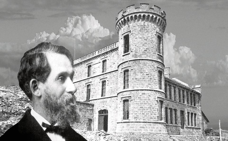 Gorege fabre and his meteo